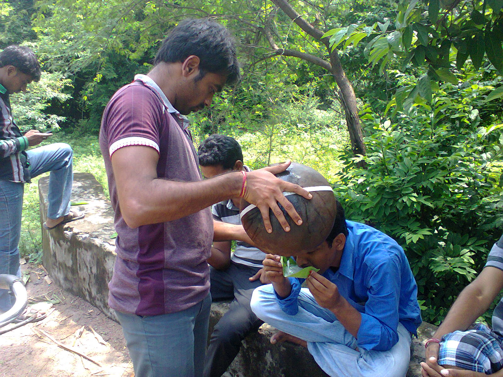 తాటి కల్లు.